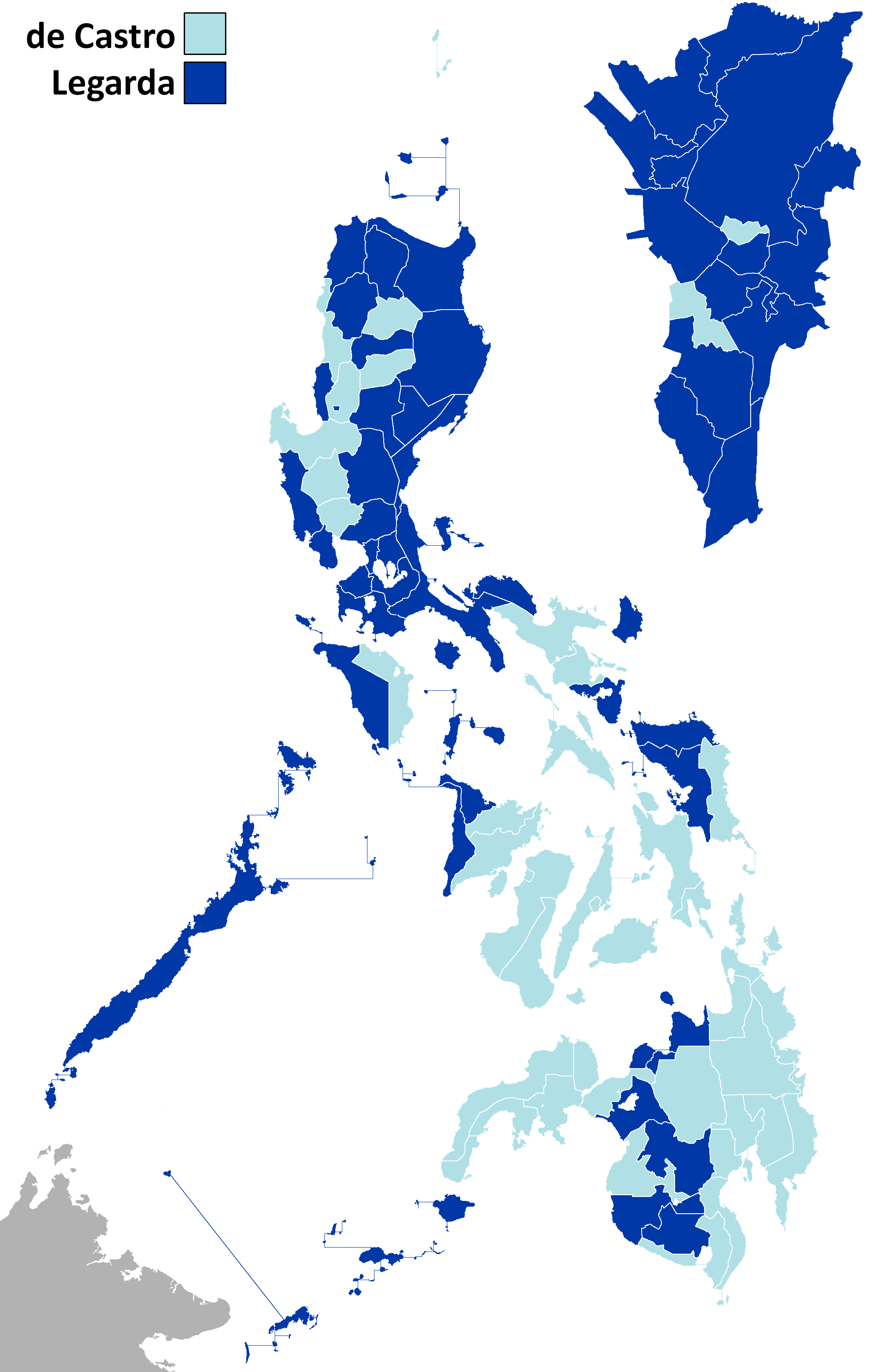 Results of the 2994 Philippine vice presidential election.